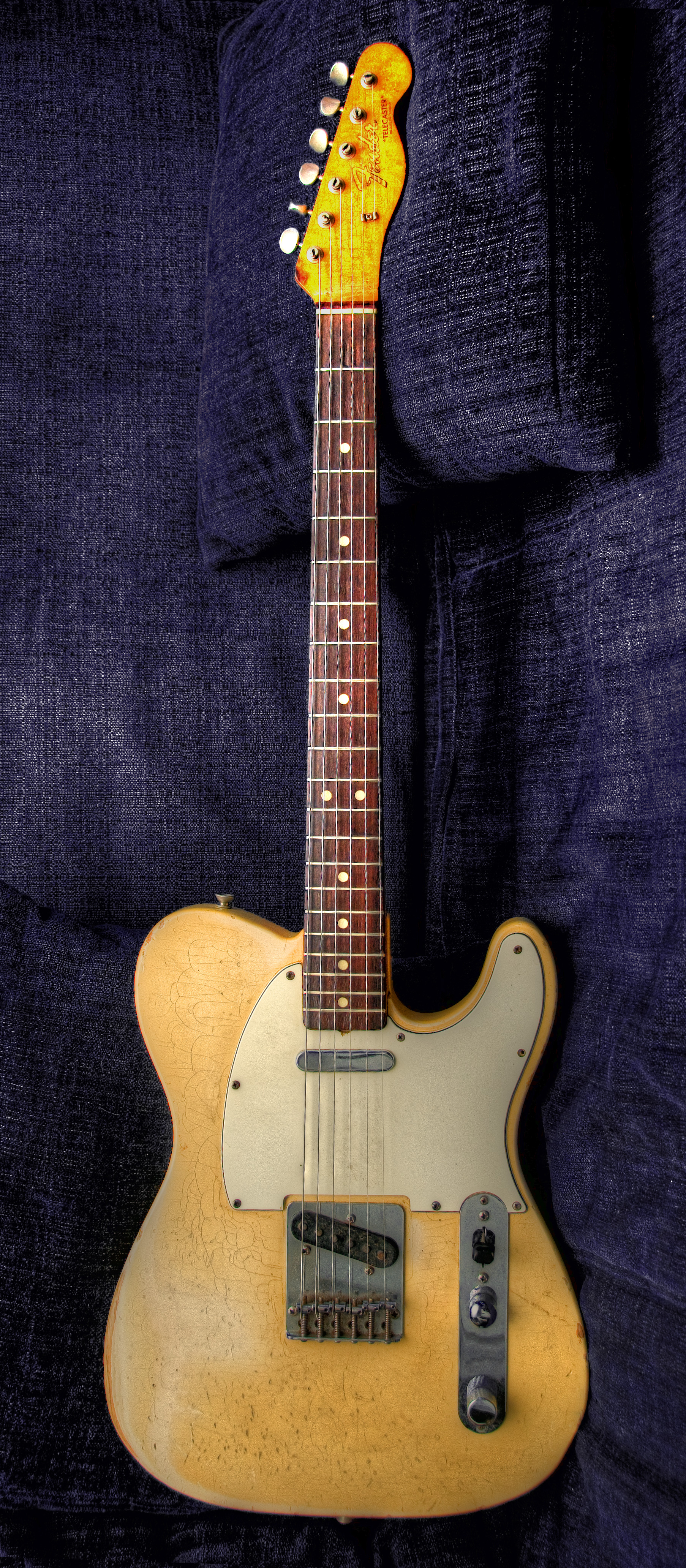 1966 Fender Telecaster (tonemapped)